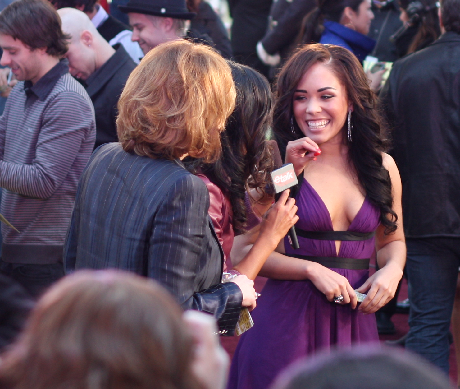 Kreesha Turner being interviewed on the red carpet at the 2009 Juno Awards in Vancouver, British Columbia, Canada